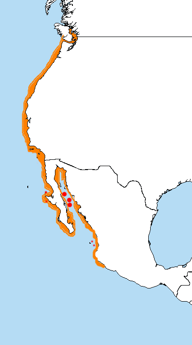 Distribution Map of Larus heermanni